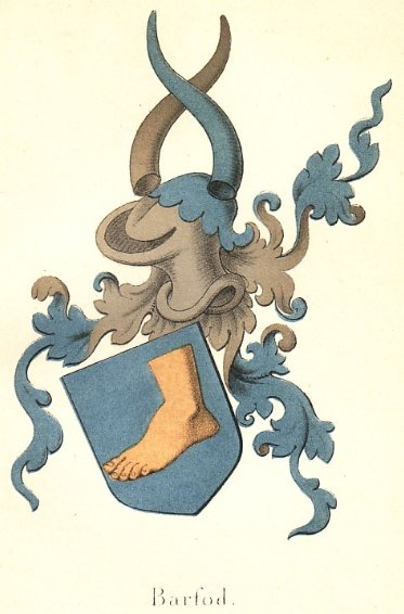 Coat of arms of the Barfod family